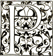 Hypnérotomachie, éd. Martin, 1546, image on p. 1.